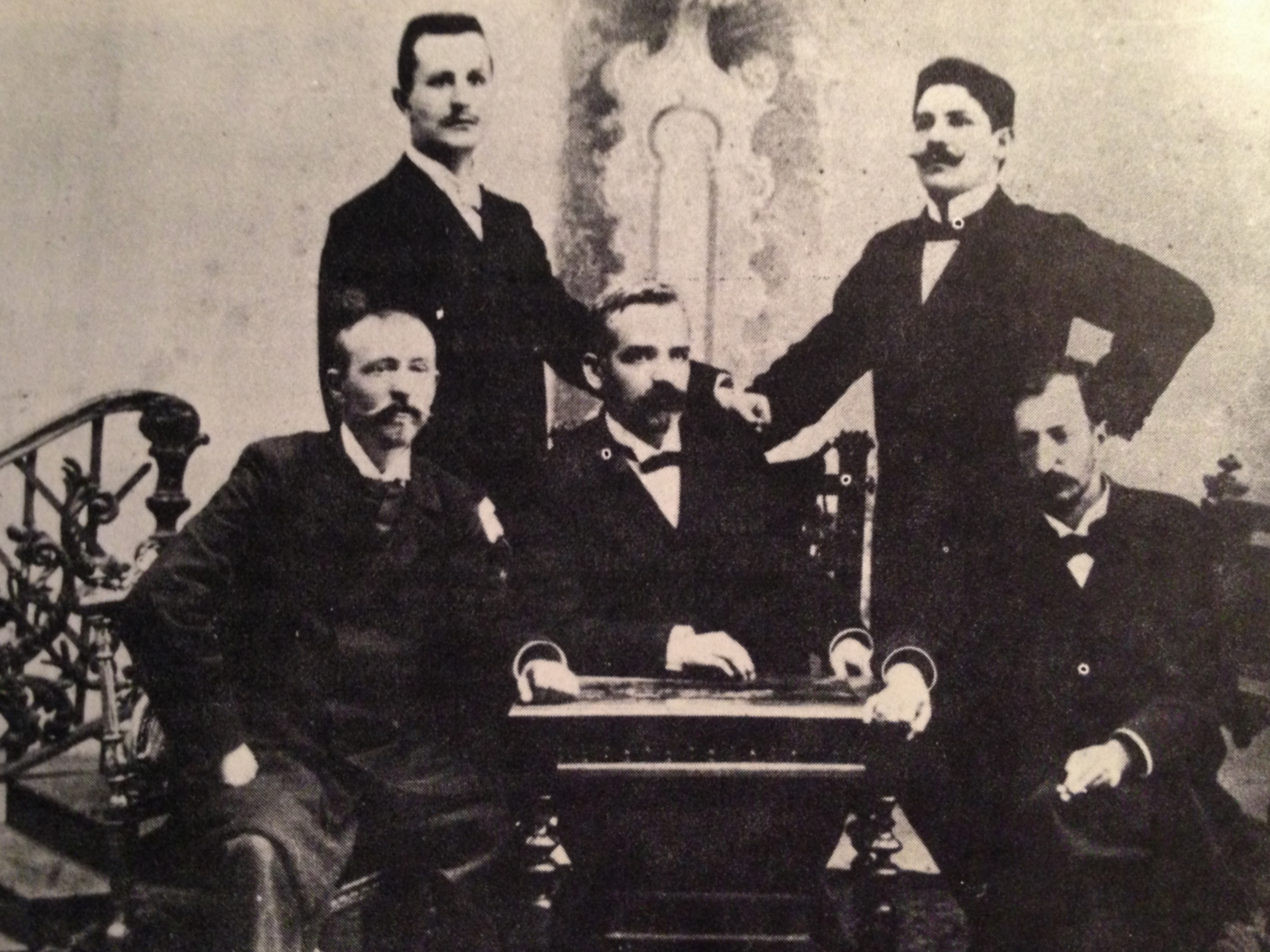 Editors of the Gradina magazine from 1900 Srpski (latinica): Urednici niškog časopisa Gradina iz 1900